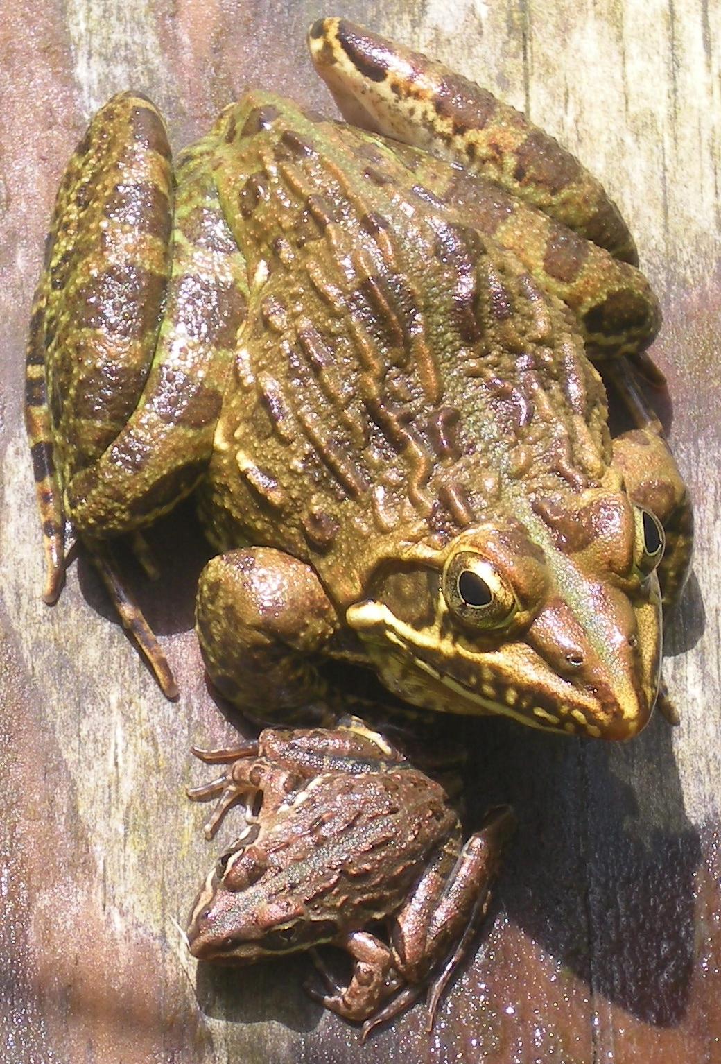 Two Common River Frogs, also known as Angola River Frogs (Amietia Angolensis). This photo was taken in Pretoria (South Africa).